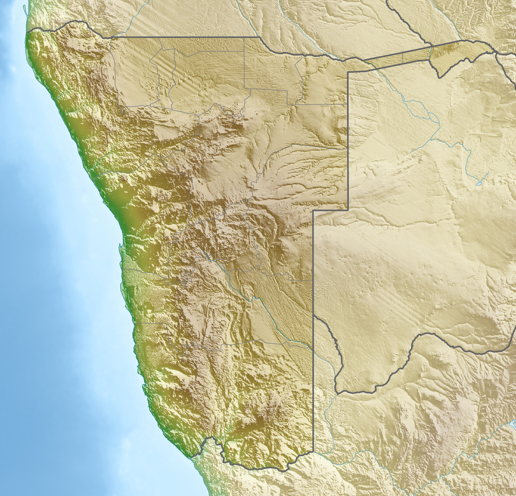 Physical location map of Namibia Equirectangular projection, N/S streching 108 %. Geographic limits of the map: N: 16.4° S S: 29.6° S W: 11.0° E E: 25.8° E